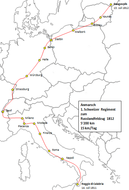 Deployment of the 1st Swiss Regiment for the Russian Campaign 1811/12